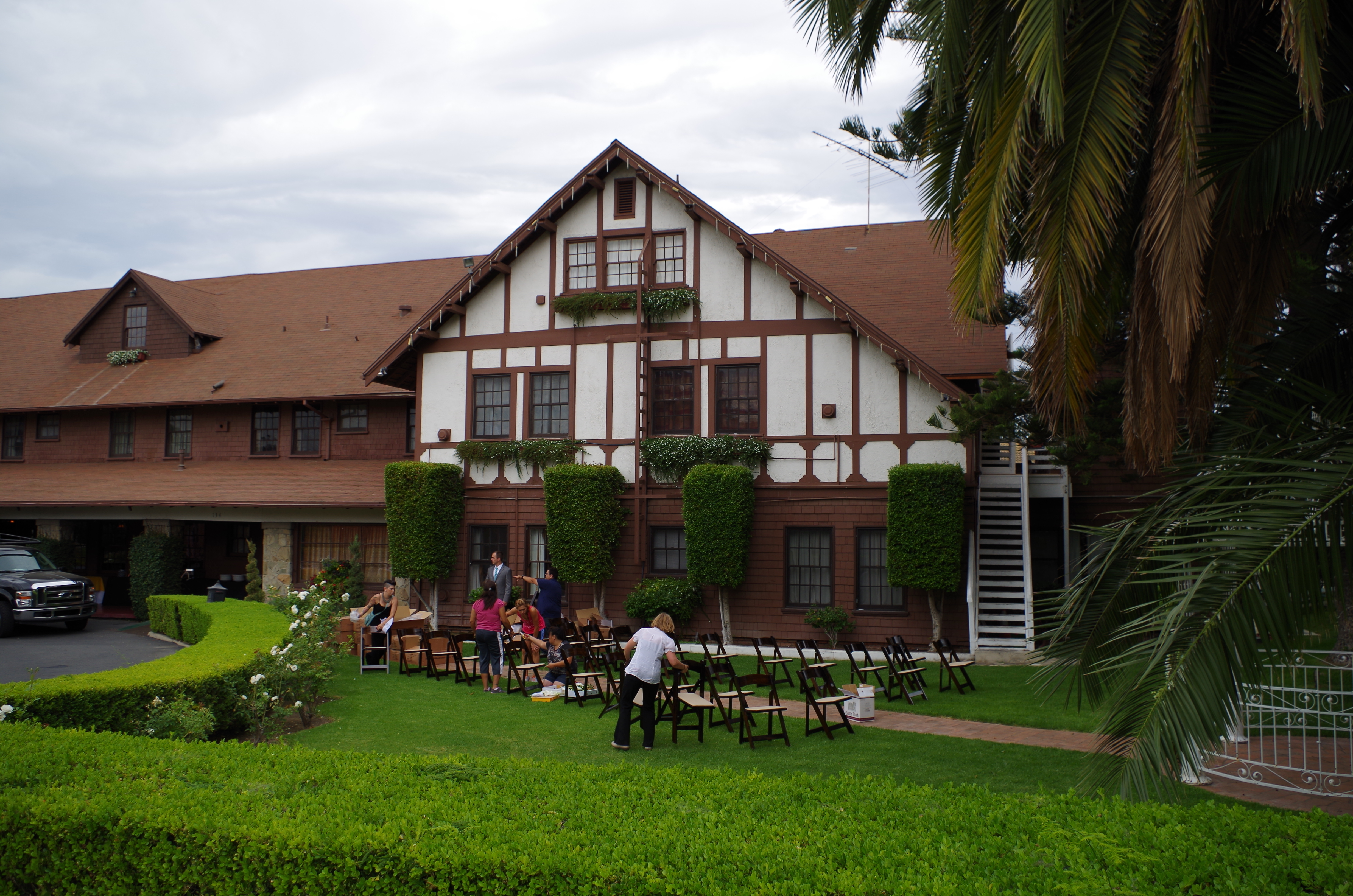 Glen Tavern Hotel, 134 N. Mill St. Santa Paula